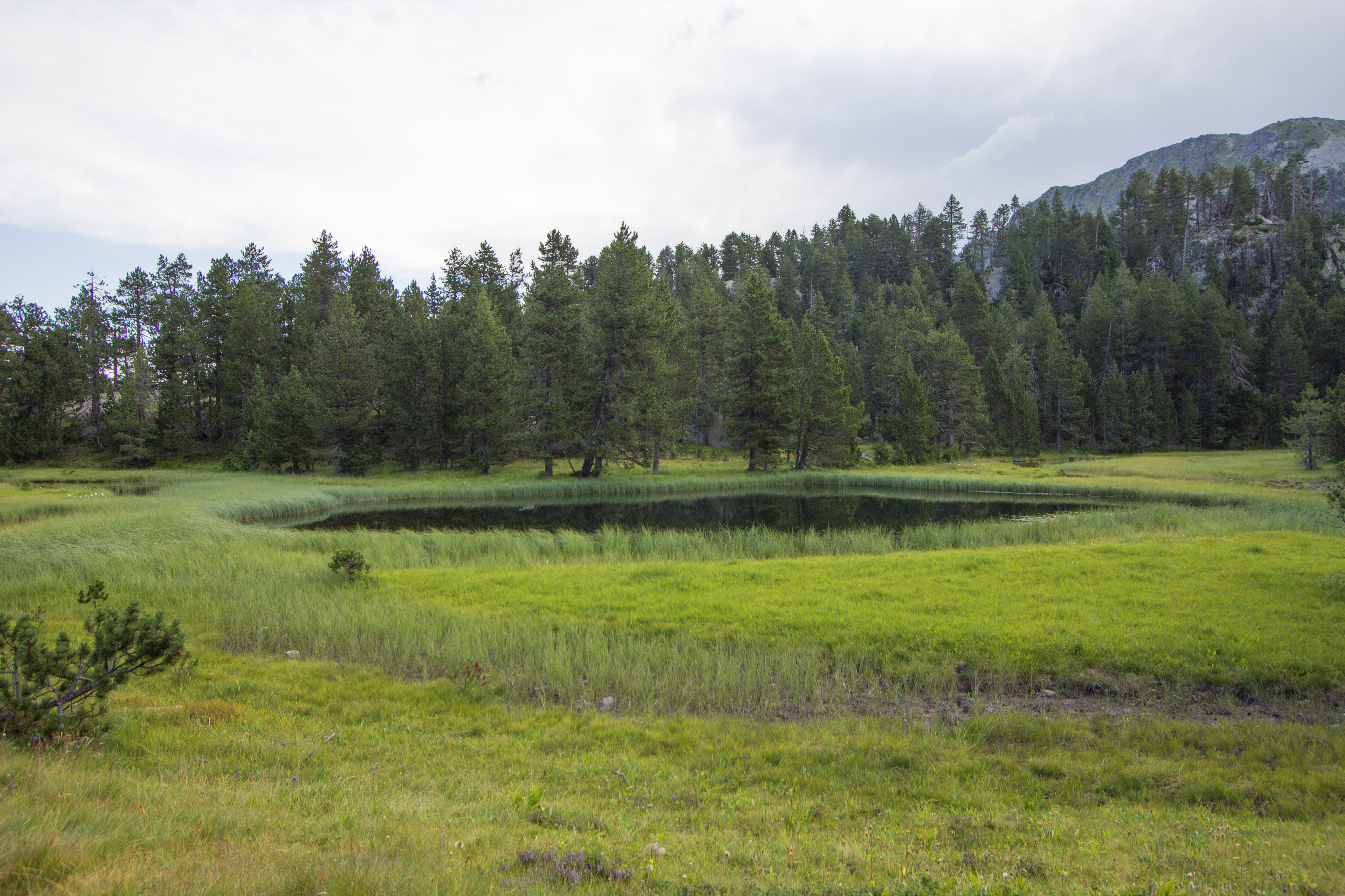 Lòssa lake, in the cirque of Colomers, Naut Aran, (Catalan Pyrenees)